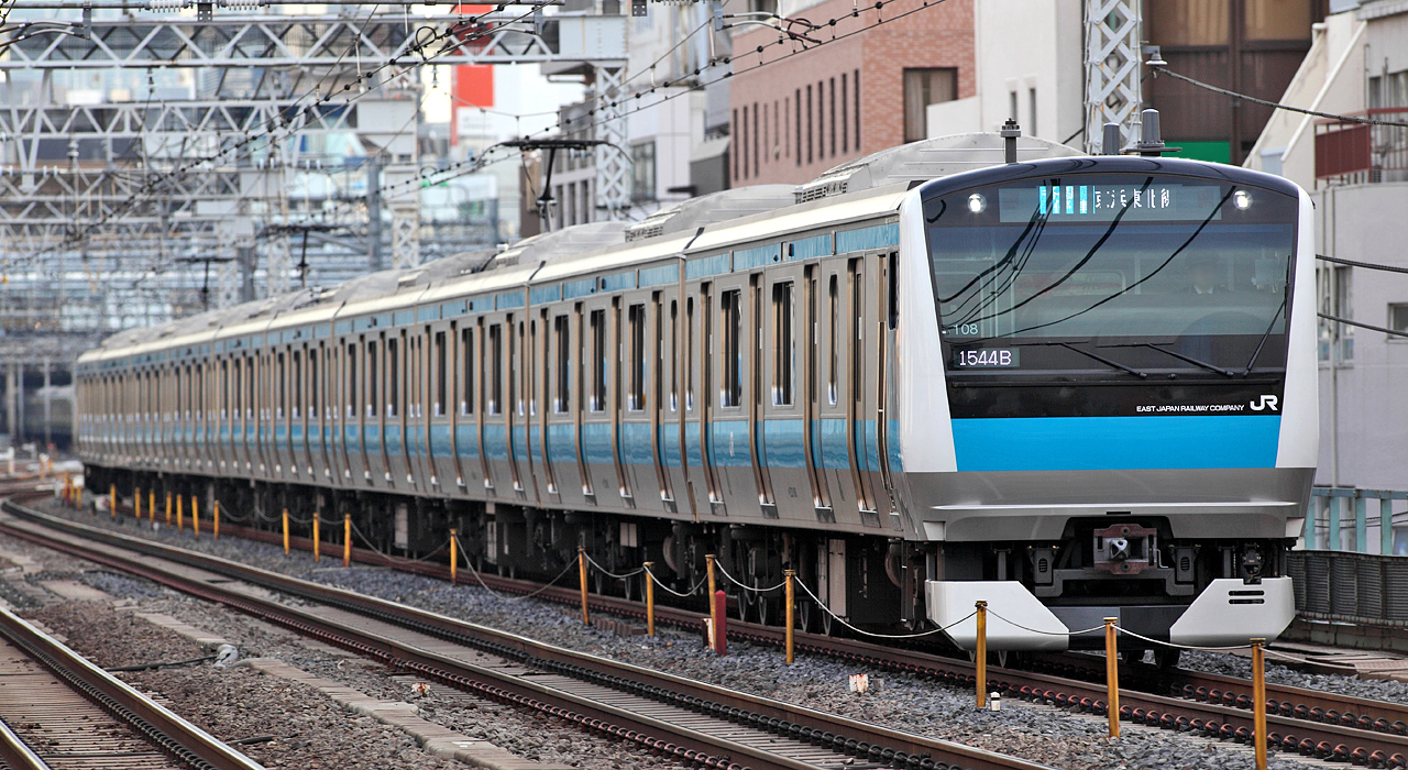 JR East E233-1000 series EMU set 108 on a Keihin-Tōhoku Line service, between Akihabara and Okachimachi Stations